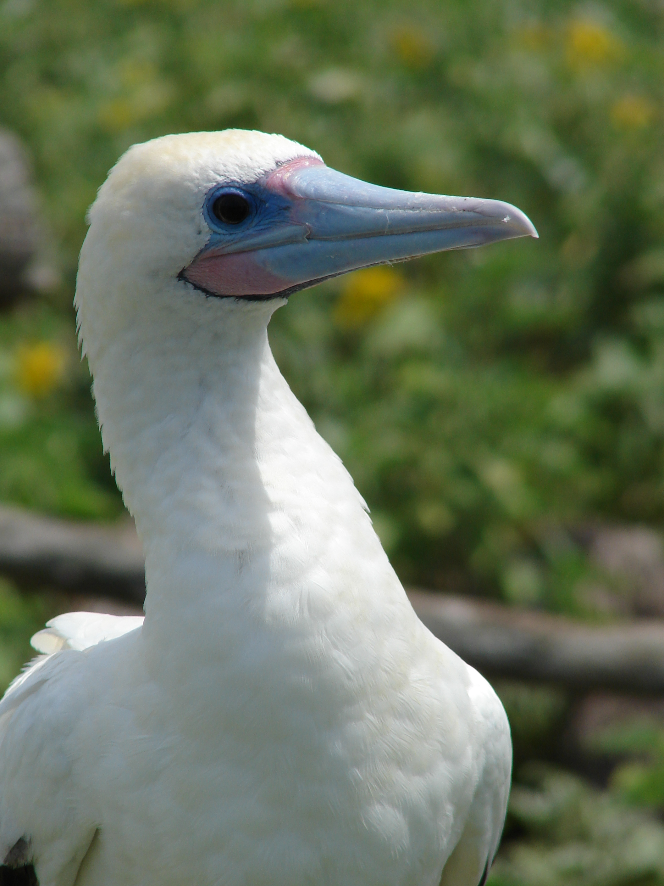 Red-footed Booby. Location: Midway Atoll, Eastern Island